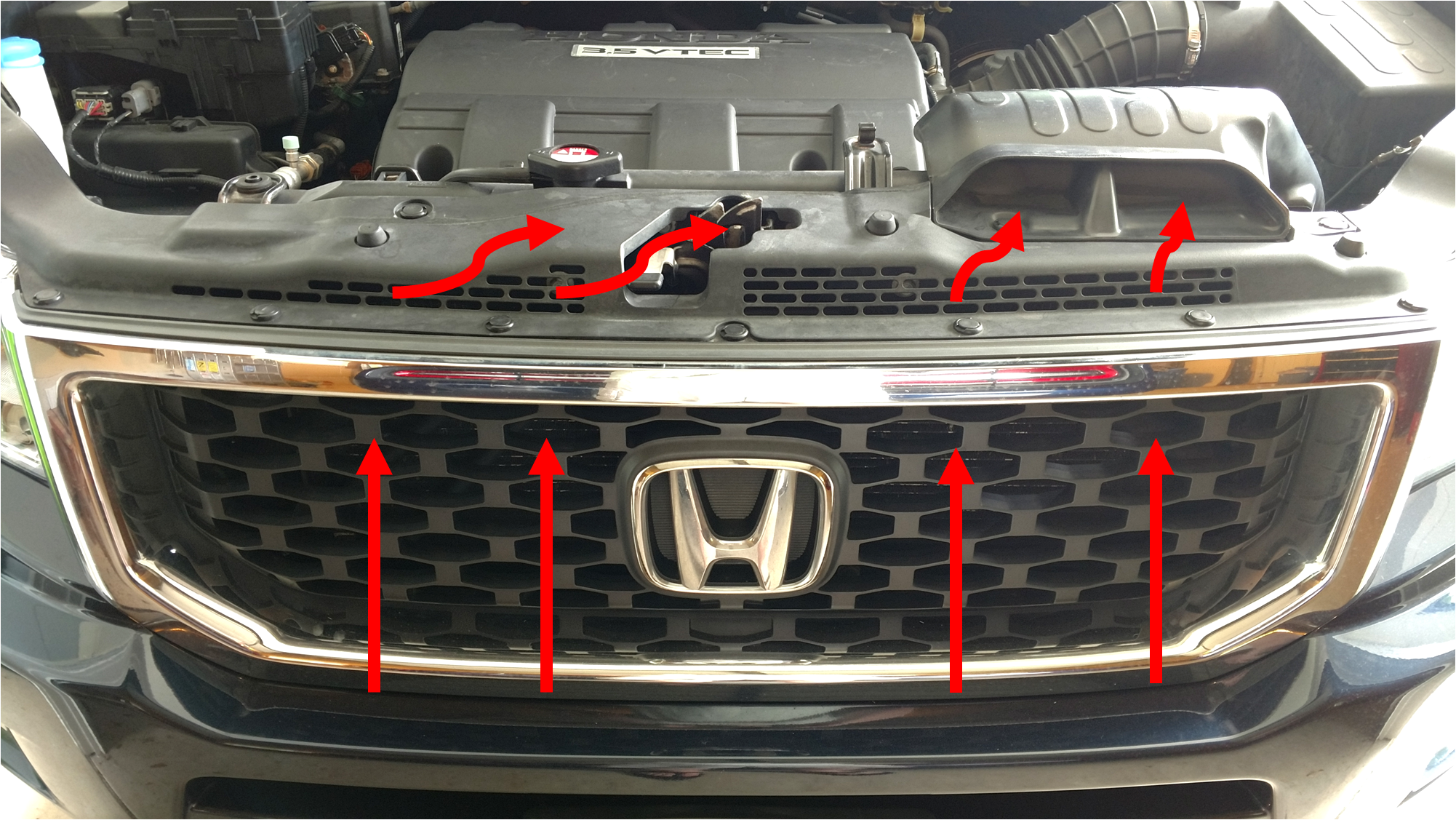 Image of a 2009-2014 Honda Ridgeline engine compartment, with lines illustrating how air is brought in from above and in-front of the radiator and moved into the air box using a special air duct that is formed by seals located under the engine hood as they come into contact with the top of the radiator cowling.[1]